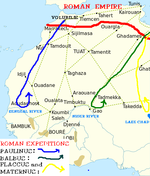 Map of the main Roman explorations and expeditions to Sub-Saharan Western Africa. I added data on a Commons map of travel routes in western Africa (File:Trans-Saharan routes early.svg).